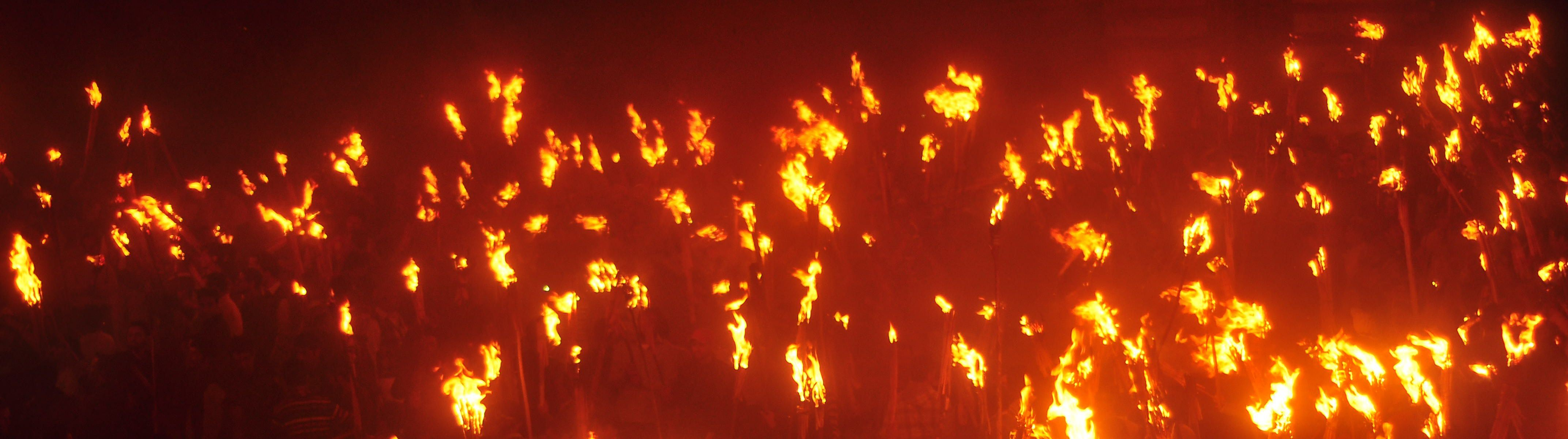 Worship of a deity, the Banad Devata, on the evening of September 20, 2012, at Jubbal near Shimla, Himachal Pradesh, INDIA. Photo taken by Pawan Pirta.